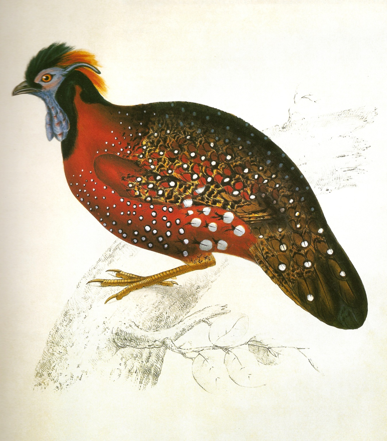 Satyr Tragopan (Crimson Tragopan, Crimson-horned Pheasant) Tragopan satyra (Linnaeus)